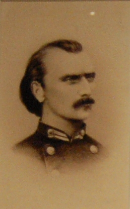 Alfred-Édouard Billioray